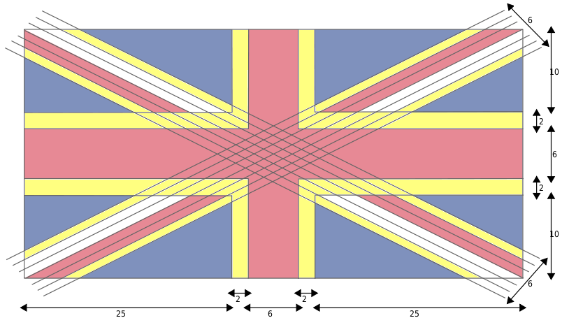 The design of the 1801 Union Flag, with the fimbriation of the ordinaries highlighted in pale yellow. The interpretation shown here is in conflict with the original blazon as decreed in 1801, which specifies that the red saltire is fimbriated in white and shown countercharged with the white saltire (i.e. the yellow fimbriations should be directly on either side of the red diagonal, not on the far side of the white diagonal).